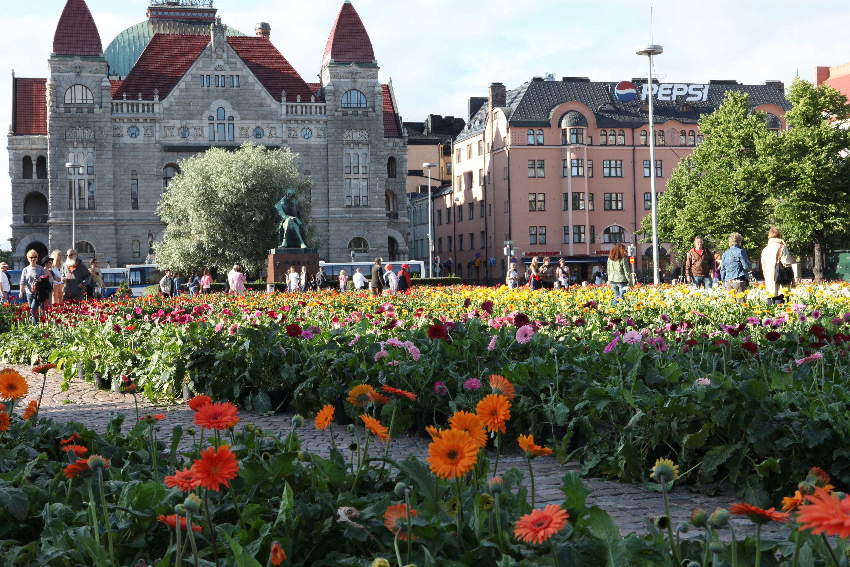 Finnish National Theater, Helsinki